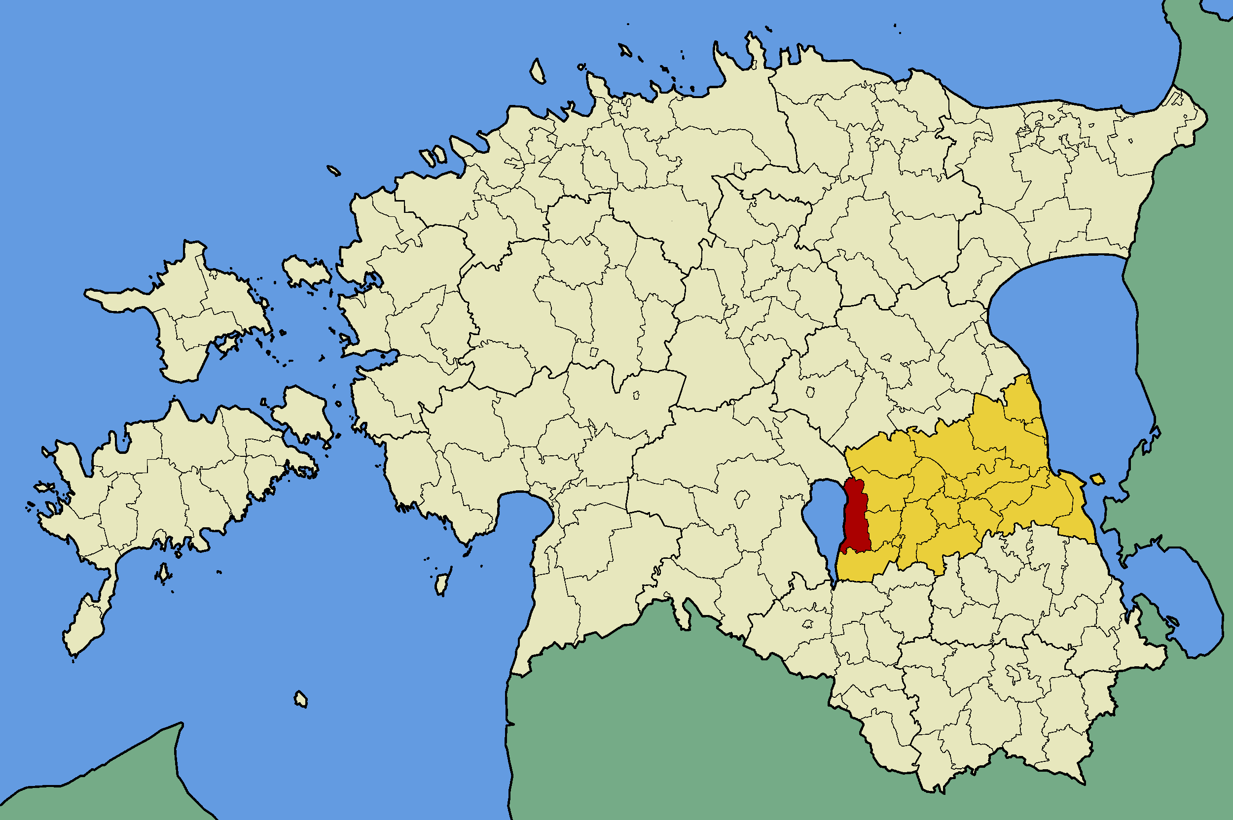 Map of Estonia with borders of municipalities (parishes). Tartu county and Rannu municipality emphasized.